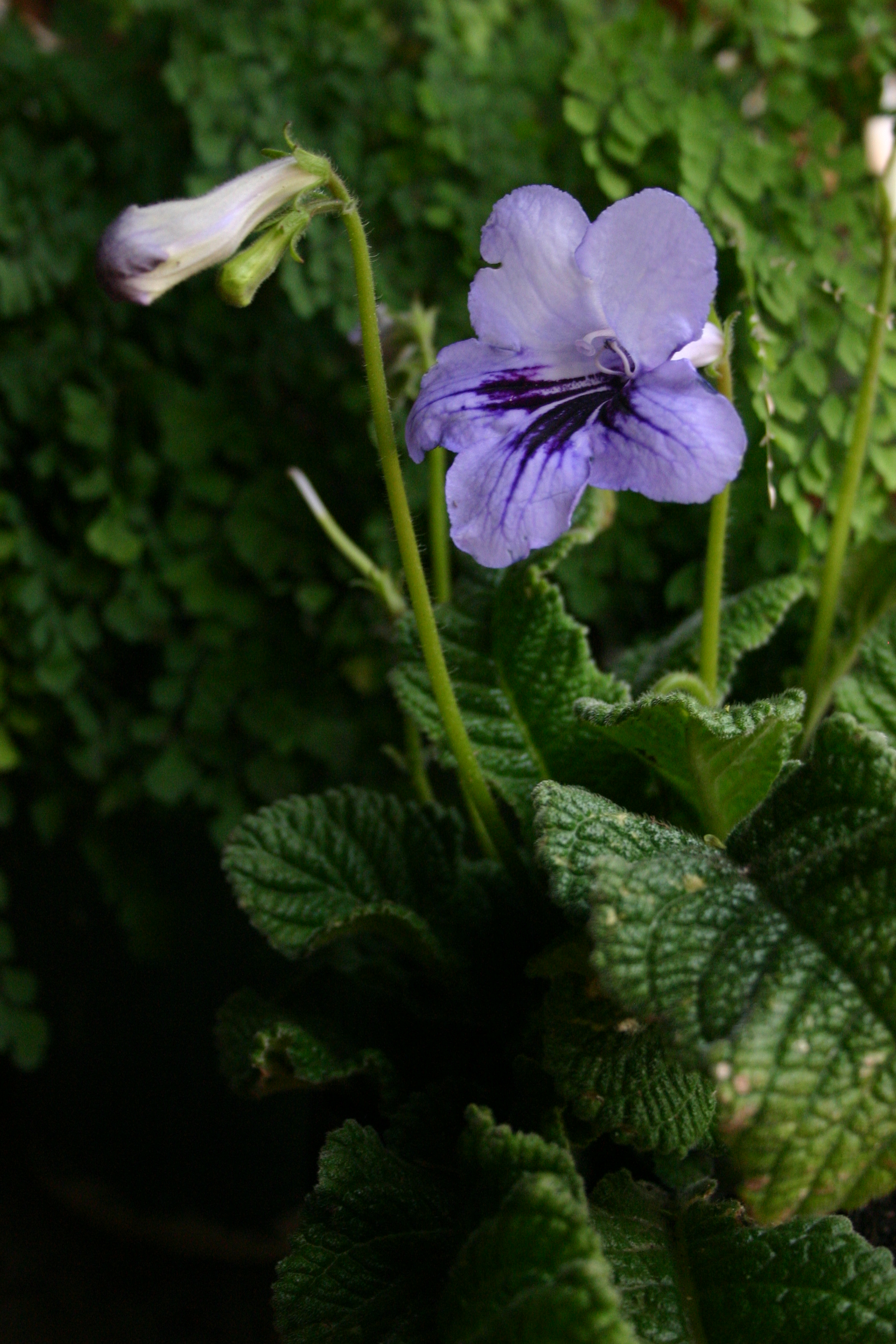 Flower, bud and leaves of Streptocarpus formosus - cultivated plant, Honeydew, Johannesburg, RSA